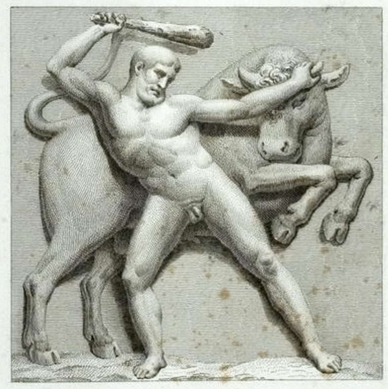 Engraving of a reconstruction of a Metope from the Temple of Zeus in Olympia with Heracles and the Cretan Bull